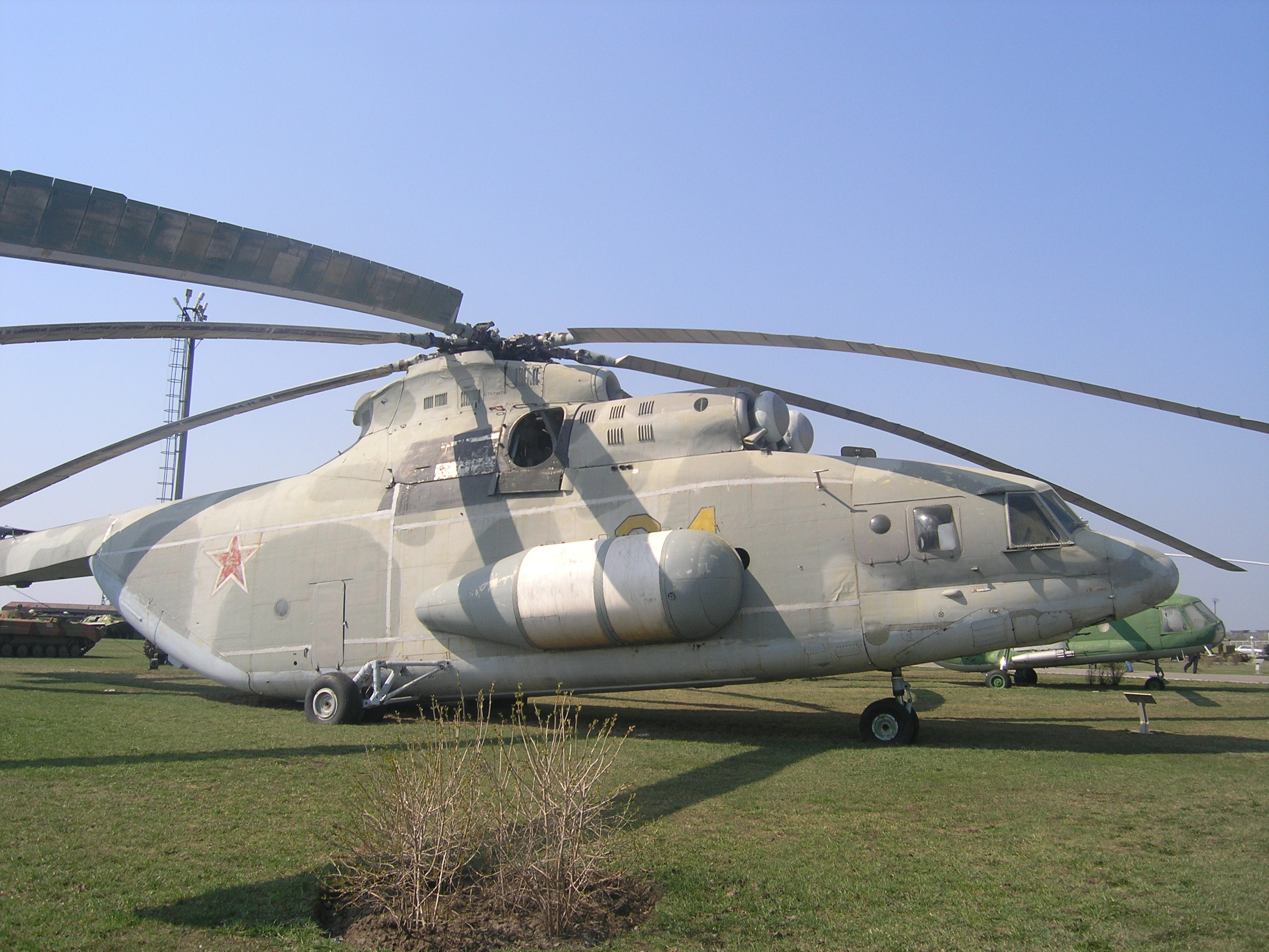 Mi-26, technical museum, Togliatti, Russia